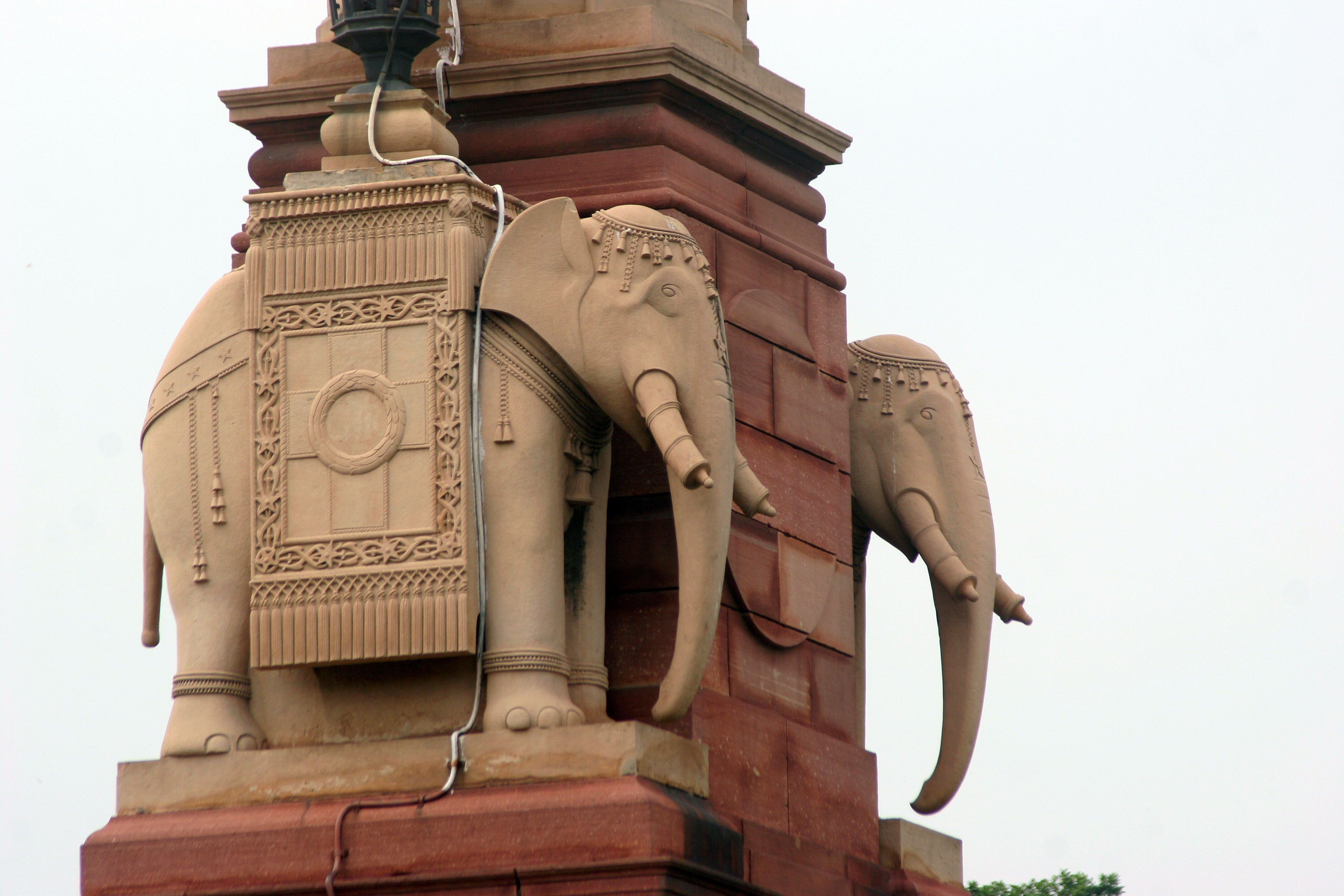 Decoration elephant on the wall to the grounds of Rashtrapati Bhavan, the presidential palace in New Delhi, India, made by British sculptor, Charles Sargeant Jagger.